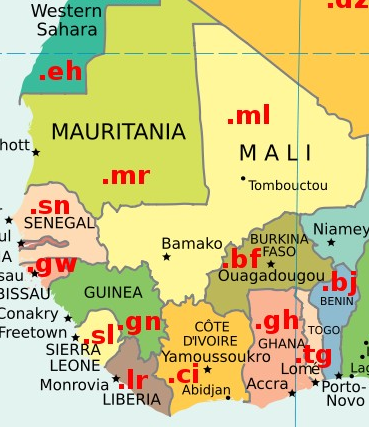 Crop from World Map Politic 2005 with ccTLDs - LQ version